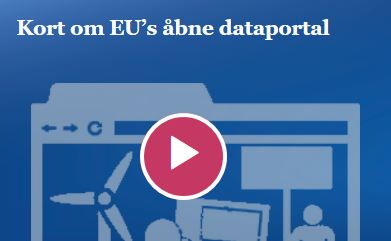 Screenshot from EUODP